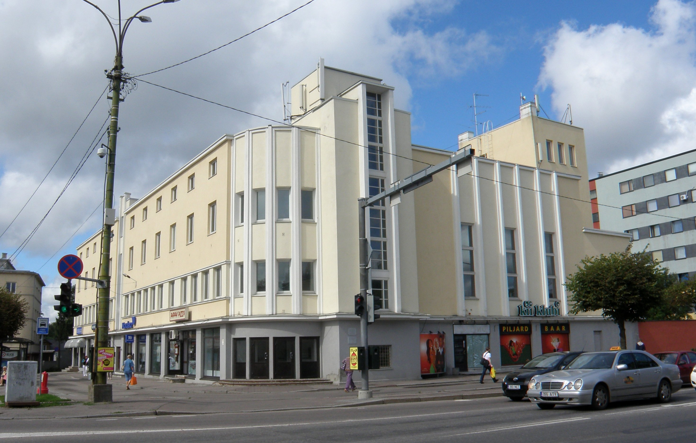 Pärnu mnt. 326